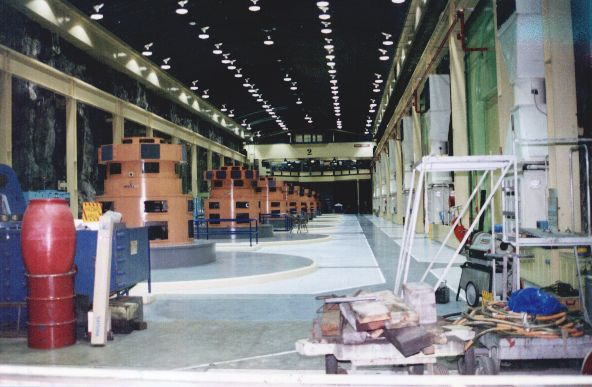 Manapouri Power Station Machine hall prior to refit